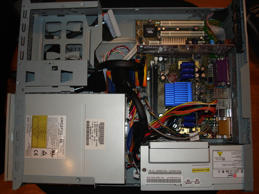 pegasos 2nd version (G4), inner view (warning, the CPU heat dissipator fan has been replaced by the blue heat dissipator)